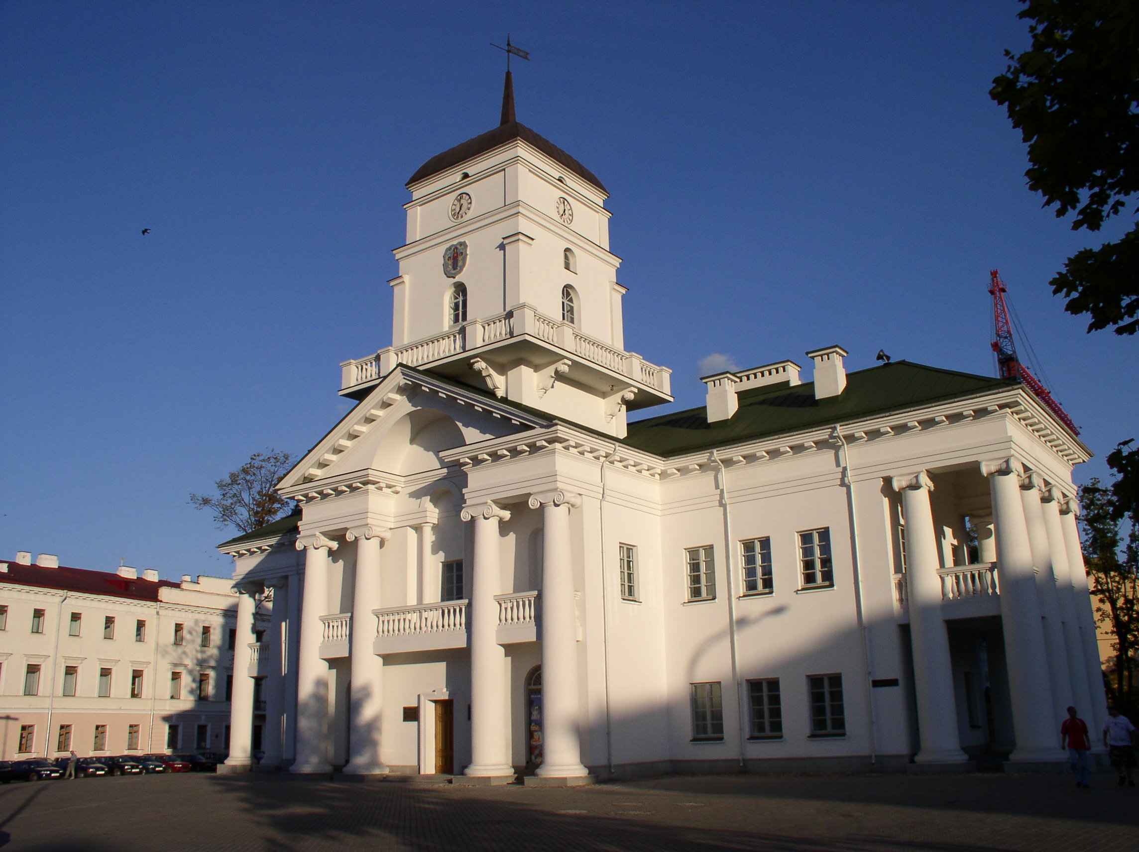 City hall, Minsk, Belarus.